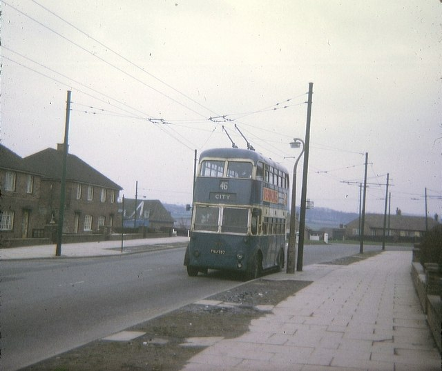 Bradford Trolleybus at Buttershaw Terminus B.U.T.9611T trolleybus 757 (FKU 757) at the terminus of Route 46 in Reevy Road West near the junction with Cooper Lane. The vehicle has Weymann 59-seater bodywork dating from 1951. The route, being previously motorbus operated, trolleybuses began running to Buttershaw on 8th April, 1956. It was converted back to motorbus operation on 31st July, 1971.